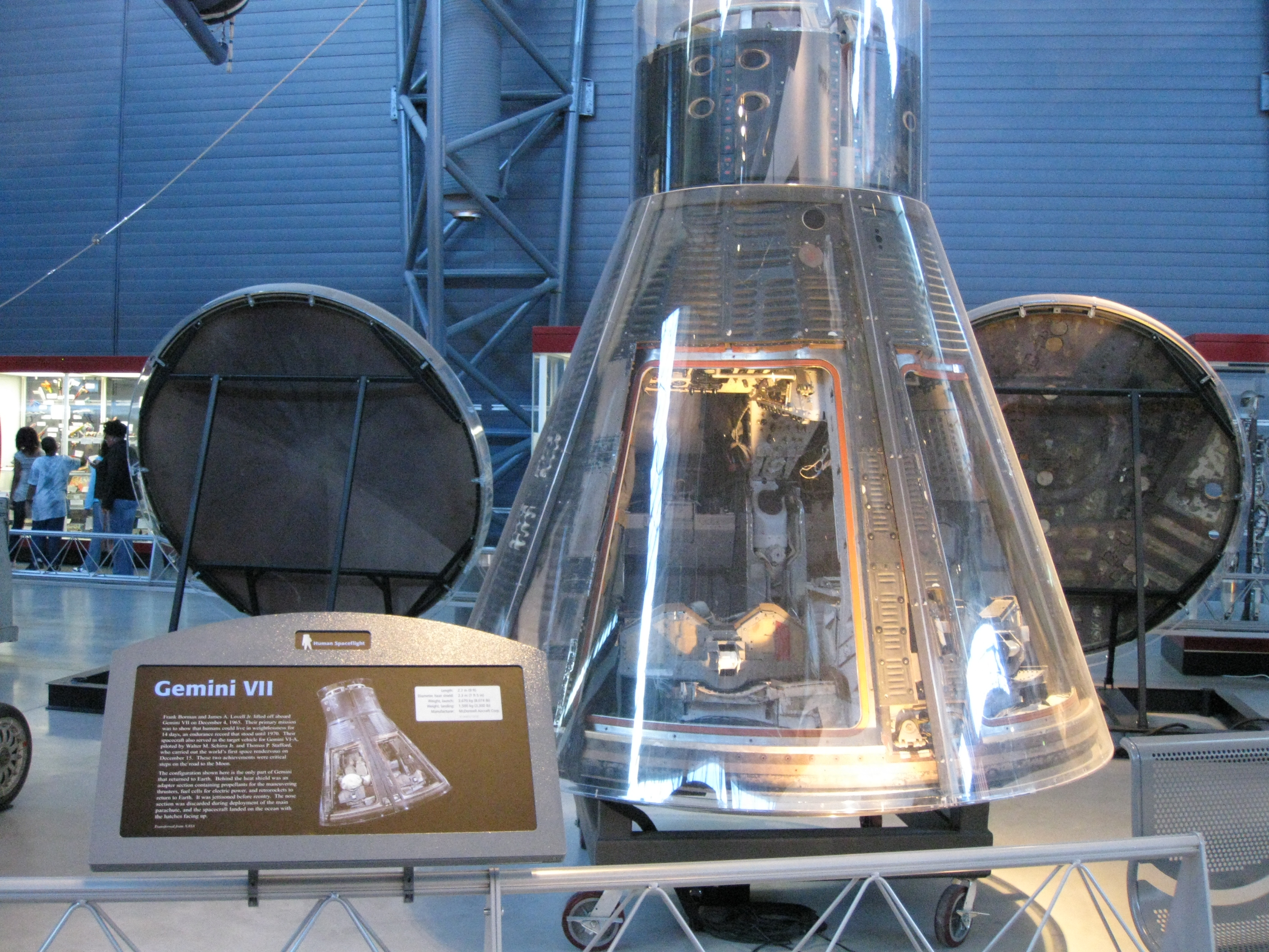 Gemini VII the Steven F. Udvar-Hazy Center, Chantilly, Virginia.